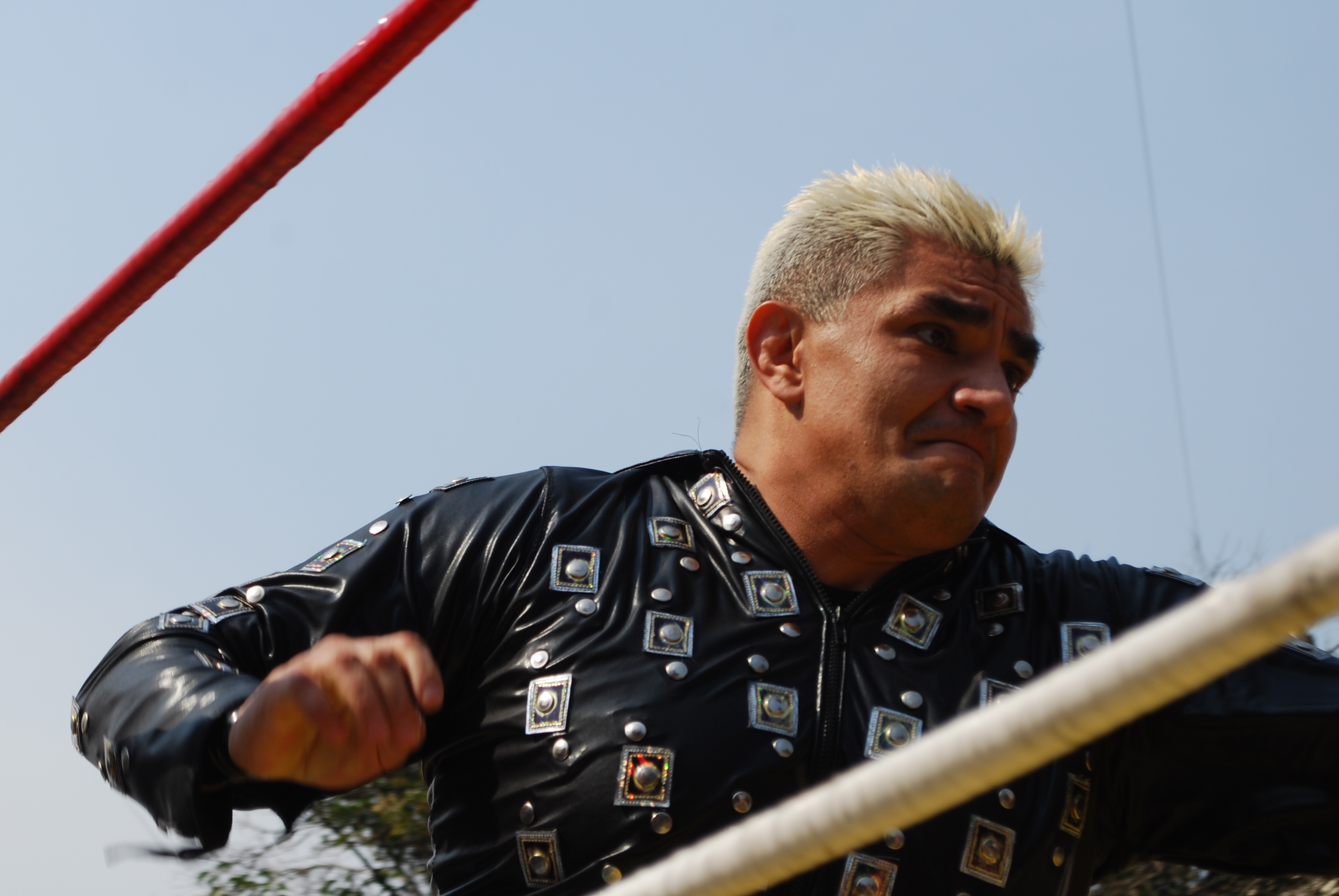 Last match at a CMLL lucha libre event part of Festival Día de Reyes Territorial Obrera Doctores in Mexico City